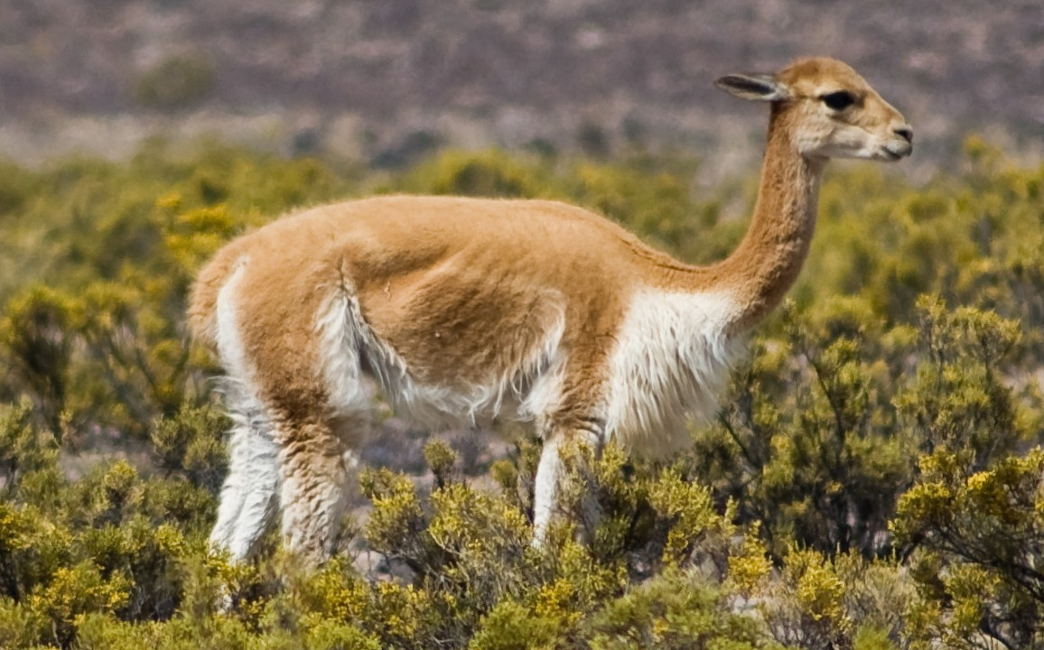 A vicuña (Vicugna vicugna) grazing near Arequipa, Peru.